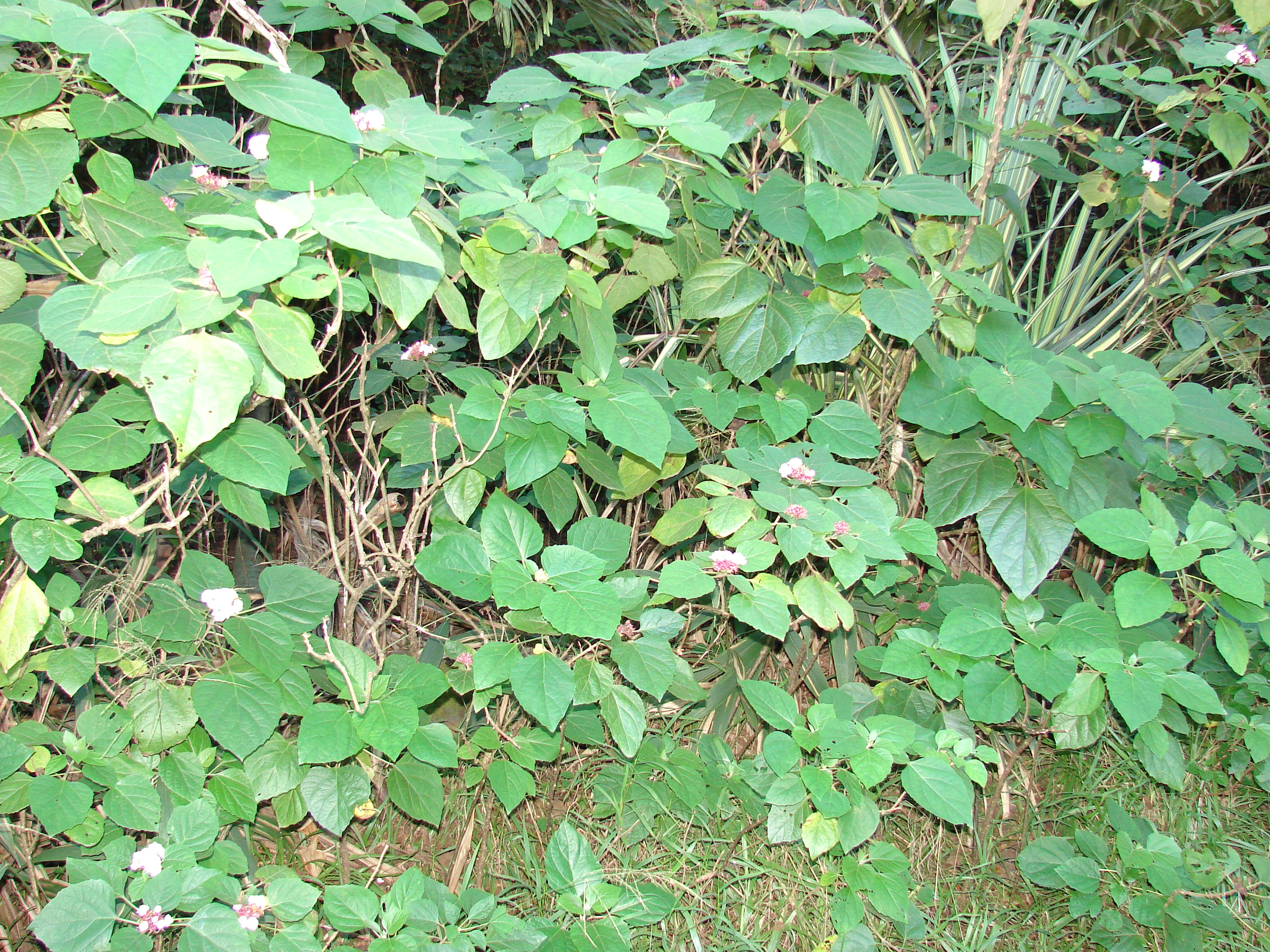 Clerodendrum chinense (habit). Location: Maui, Haiku